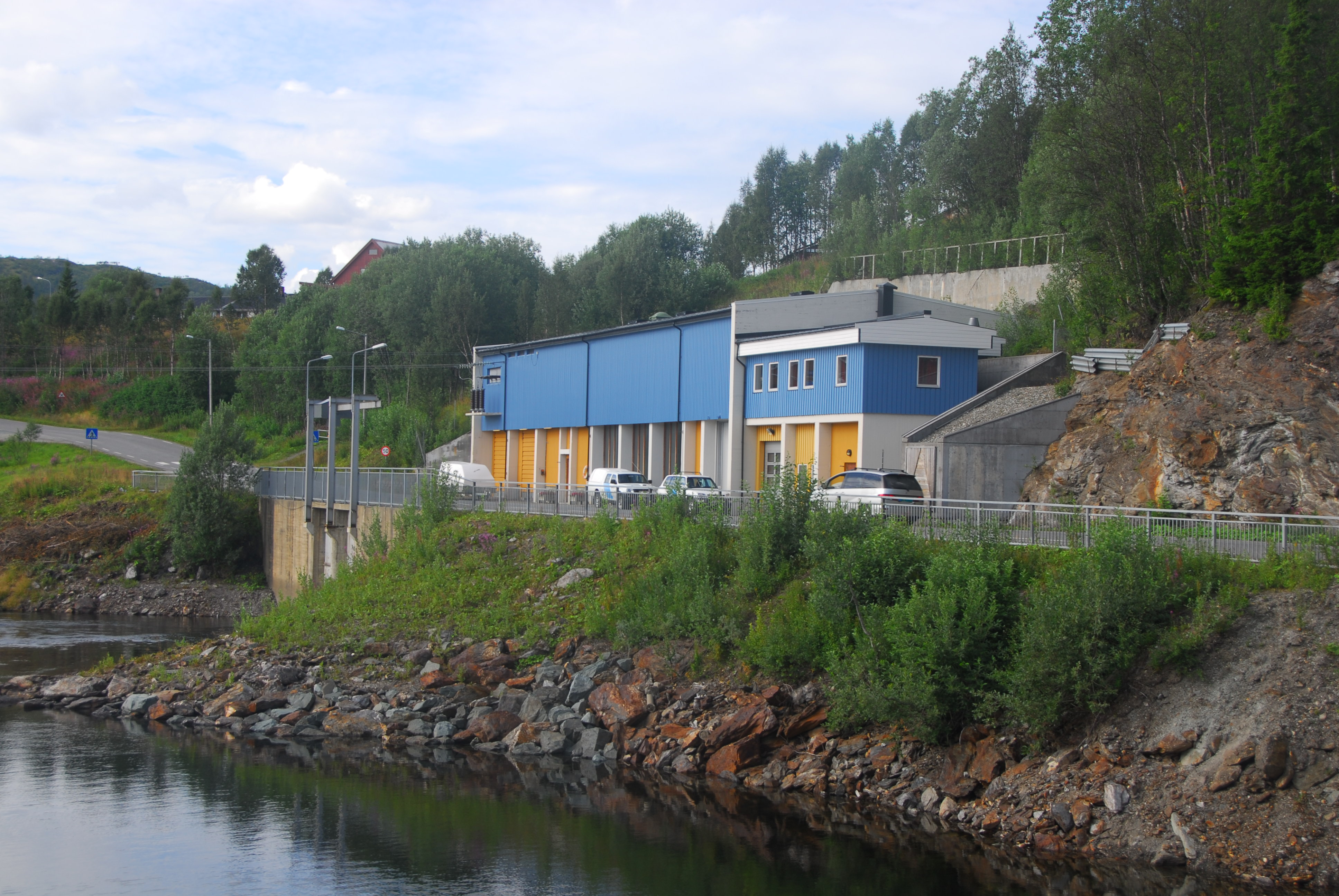 Nord-Trøndelag Elekstritetsverk power station in Røyrvik, Norway. Most probably Rørvikfoss.